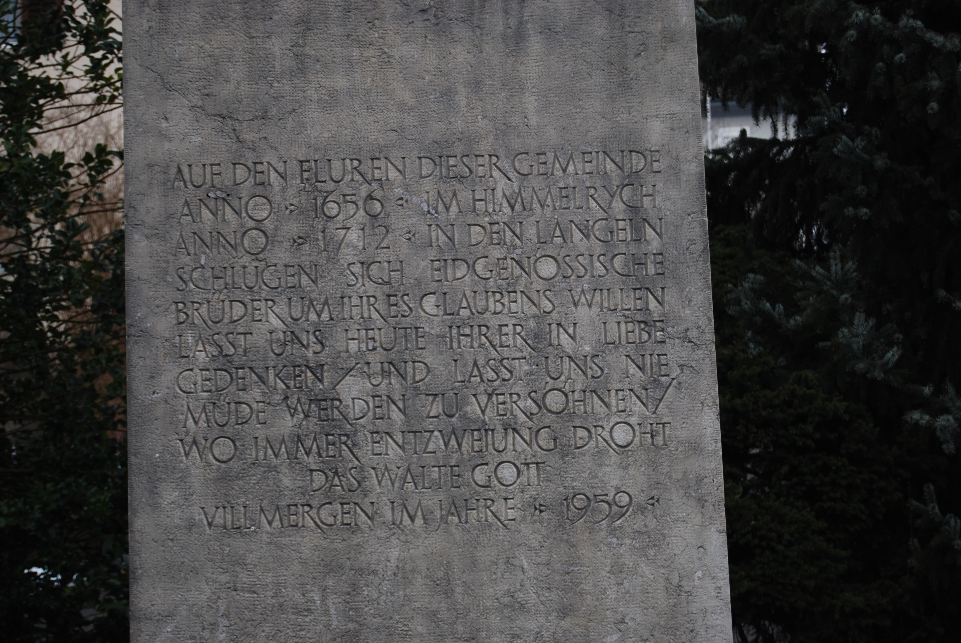 Memorial of the wars of Villmergen, canton of Aargau, SwitzerlandEsperanto: Memorejo pri la Militoj de Villmergen, Kantono Argovio, Svislando